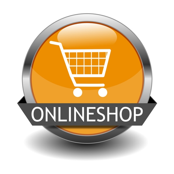 Get Discounts, Offers and Coupons in your Namakkal District all Stores, Shops and Companies.